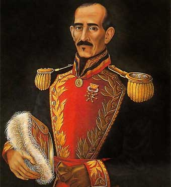 Former President of Ecuador